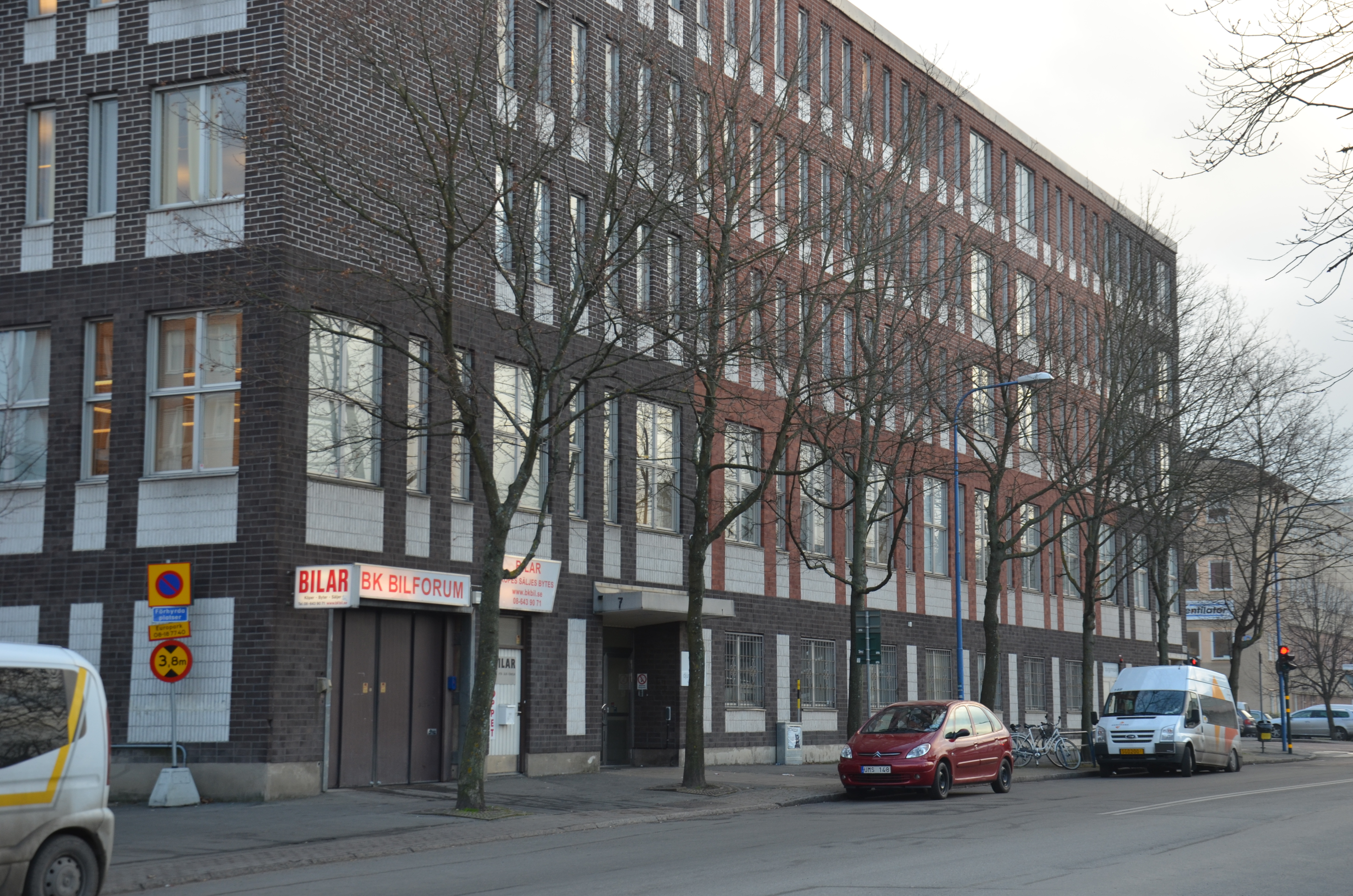 Djurgymnasiet på Liljeholmen i Stockholm